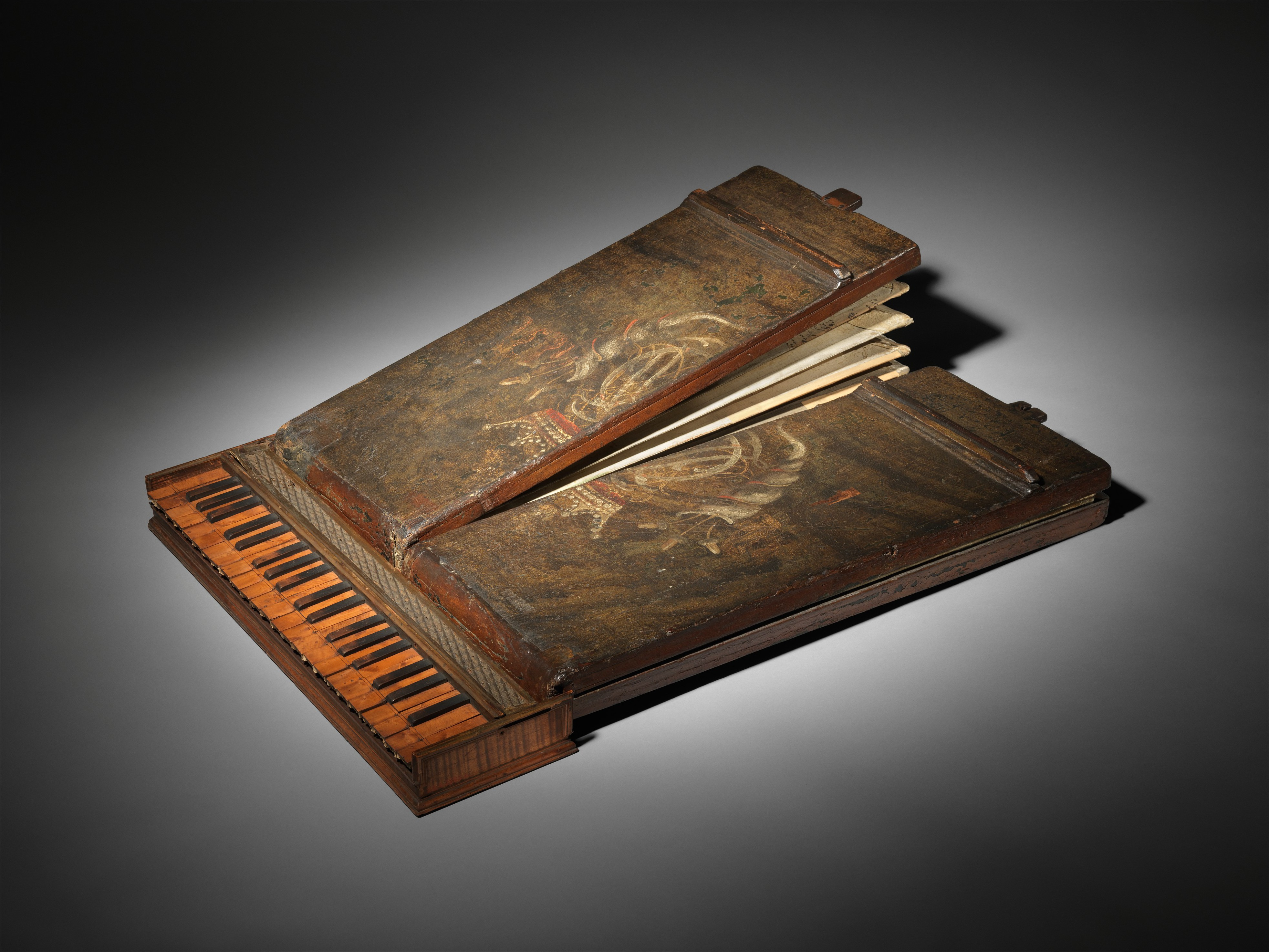 German; Regal; Aerophone-Organ